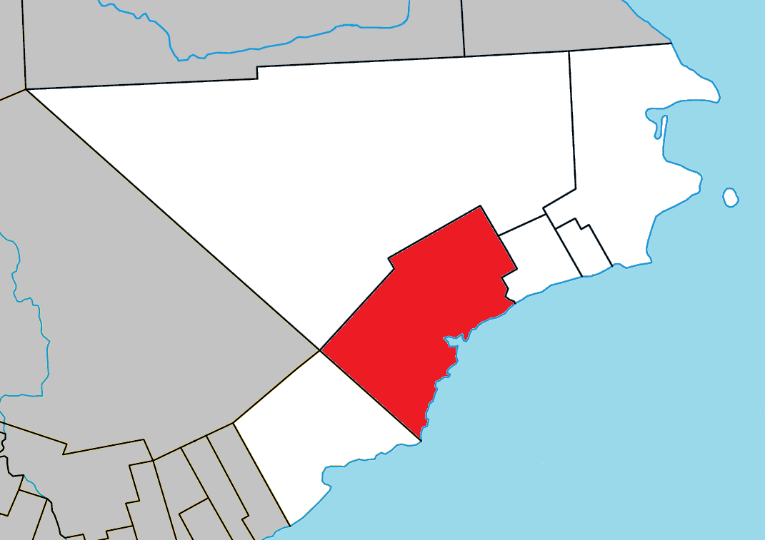 Location of Chandler, Quebec within Le Rocher-Percé Regional County Municipality.